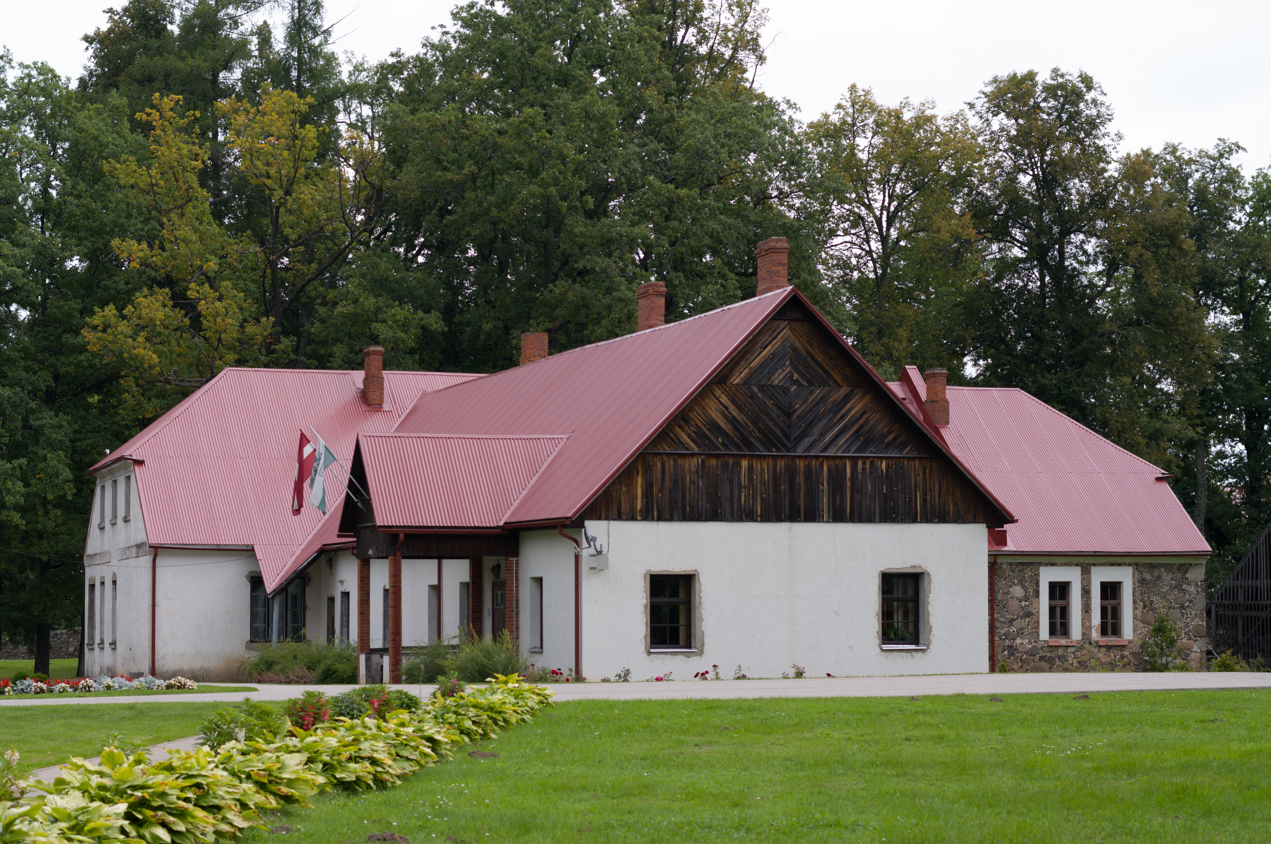 This photo was taken during a Wikiexpedition set up by Wikimedia Eesti. You can see all photographs in category WMEE-LV2013.